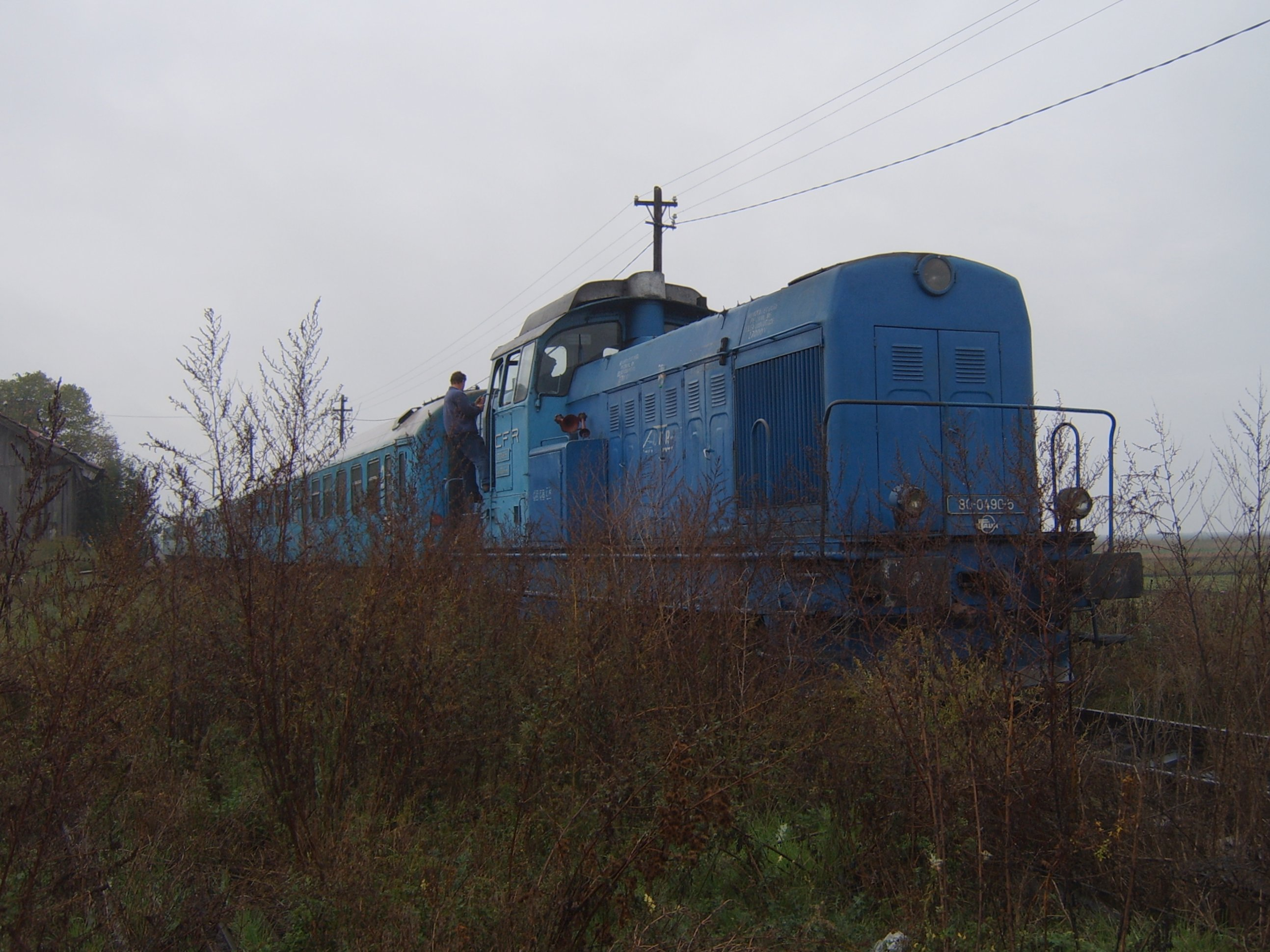 Lonely at Nerǎu? Not exactly the hot spot of Romania especially on a wet October morning! Photographed from a very overgrown platform at a particularly run down, unstaffed branch line terminus of Nerǎu. Having run round, 80.0490 is being coupled up to the stock to form train P2664,10:45 Nerǎu to Timişoara Nord on 11 October 2007. Close to the Serbian border, the train up the branch was visited by the local police, whether they were bored or not, it was decided to give my passport a thorough check. As often is the case one or two foreigners travelling along a line which basically leads to a village where there is no tourist appeal is the centre of attention.